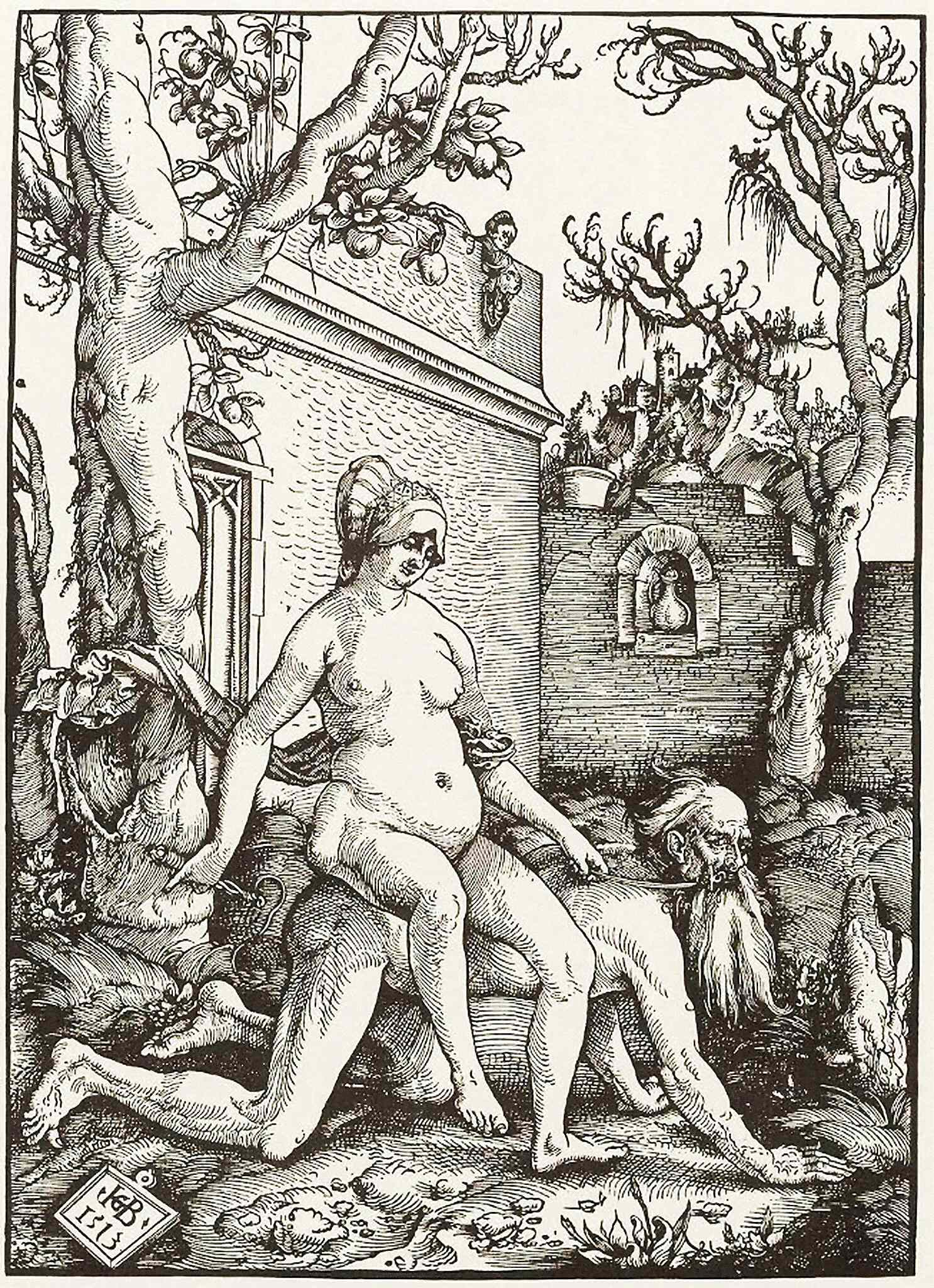 Aristotle and his lover Phyllis. Phyllis is riding on the great philosopher, which is used to symbolize the power of the women. Story often pictured by Renaissance artists.